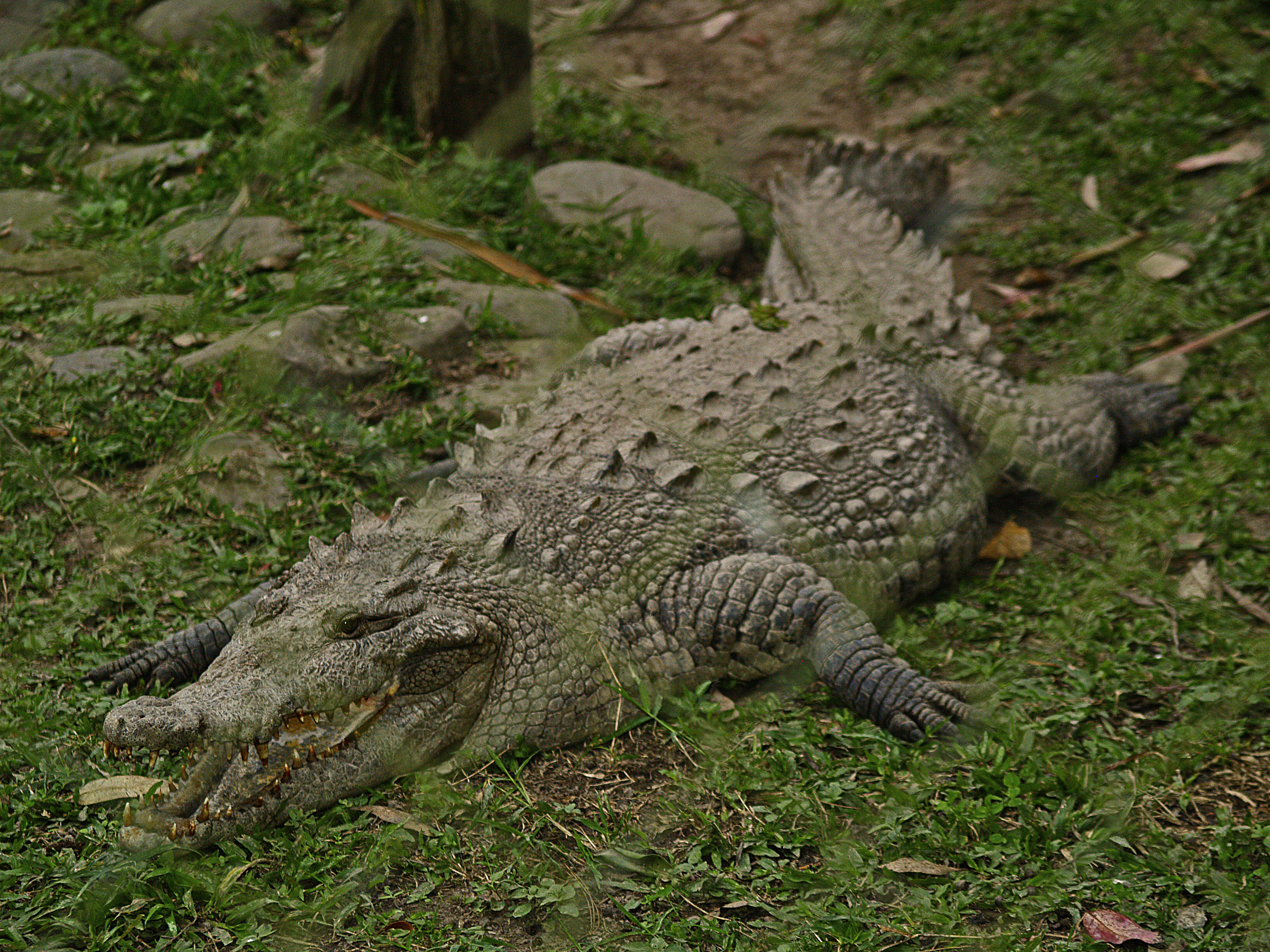 crocodile on grass